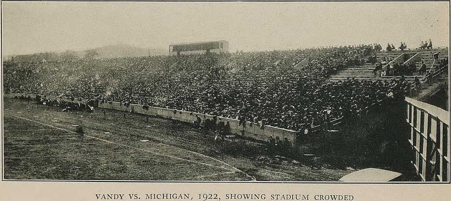 Dudley Field's first game on Oct 14, 1922, showing a crowded stadium.